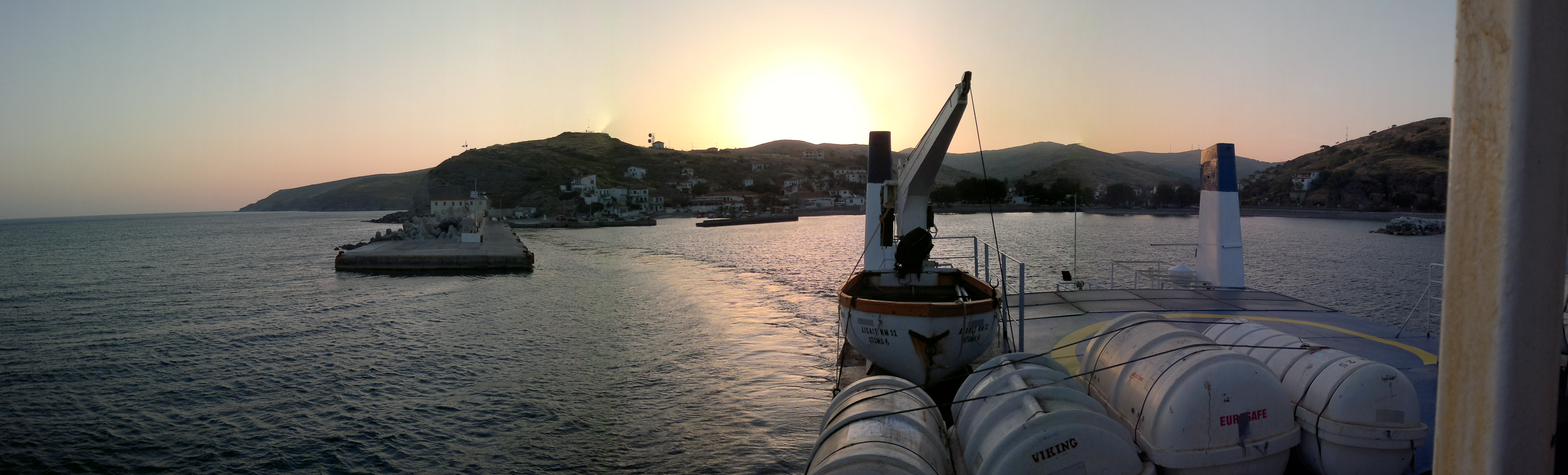 View of the harbour of Agios Efstratios